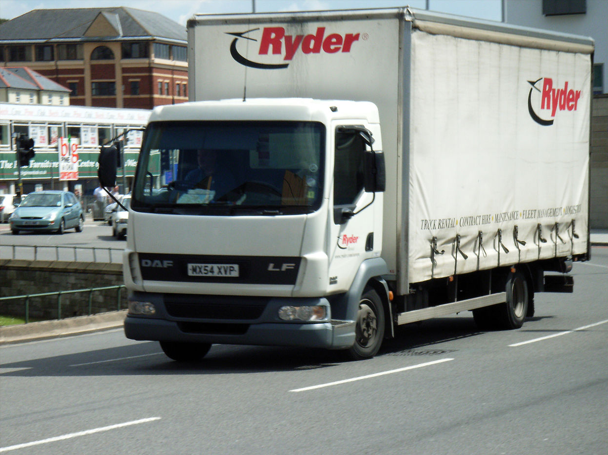 DAFTRUCKS FA LF45.150 CURTAIN SIDED 3920cc (09/11/2004) DIESEL As Featured in On The Road Plymouth A 2 Z